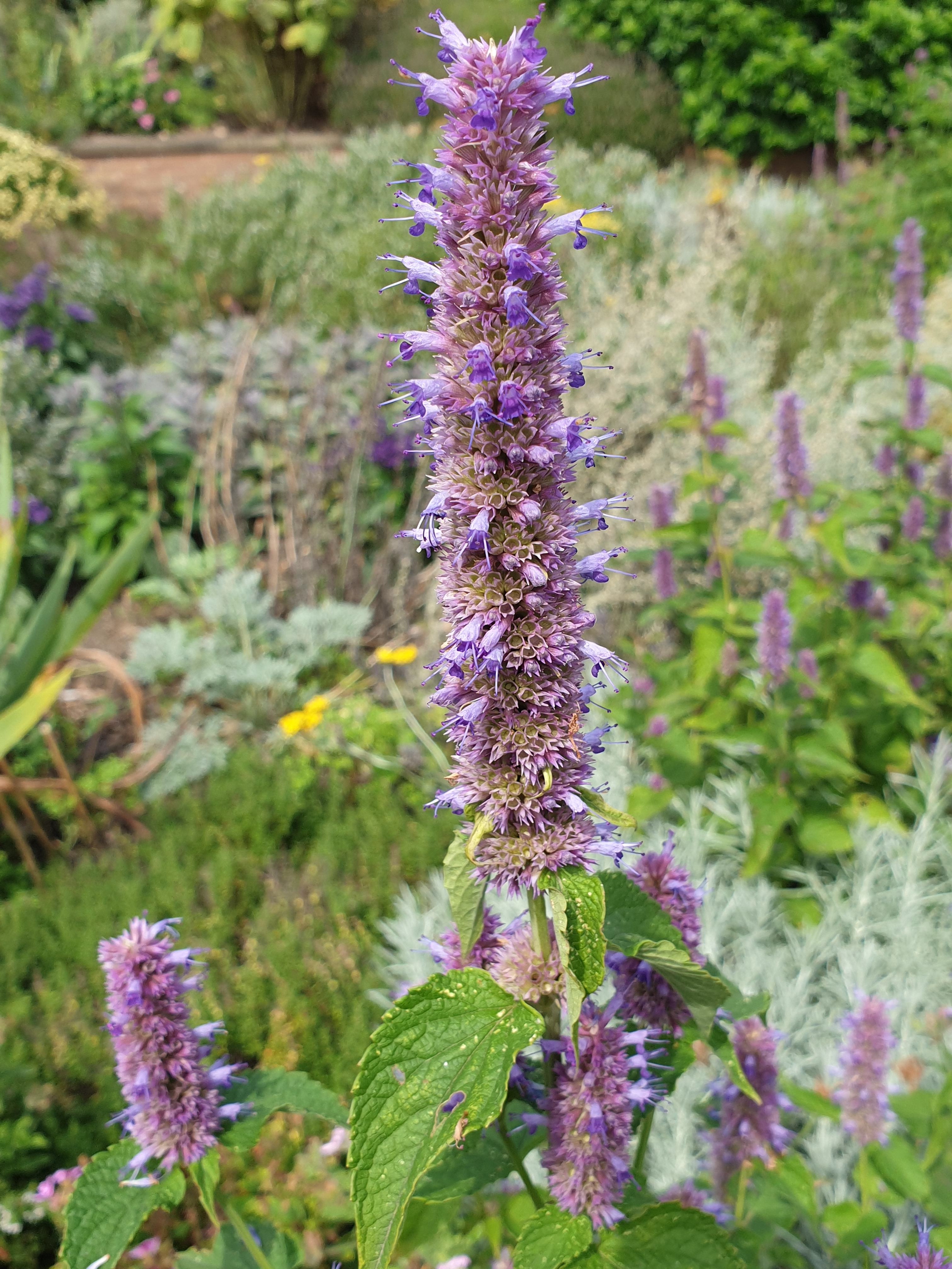 Korean mint or wrinkled giant hyssop (Agastache rugosa) at the Cambridge University Botanic Garden, England.